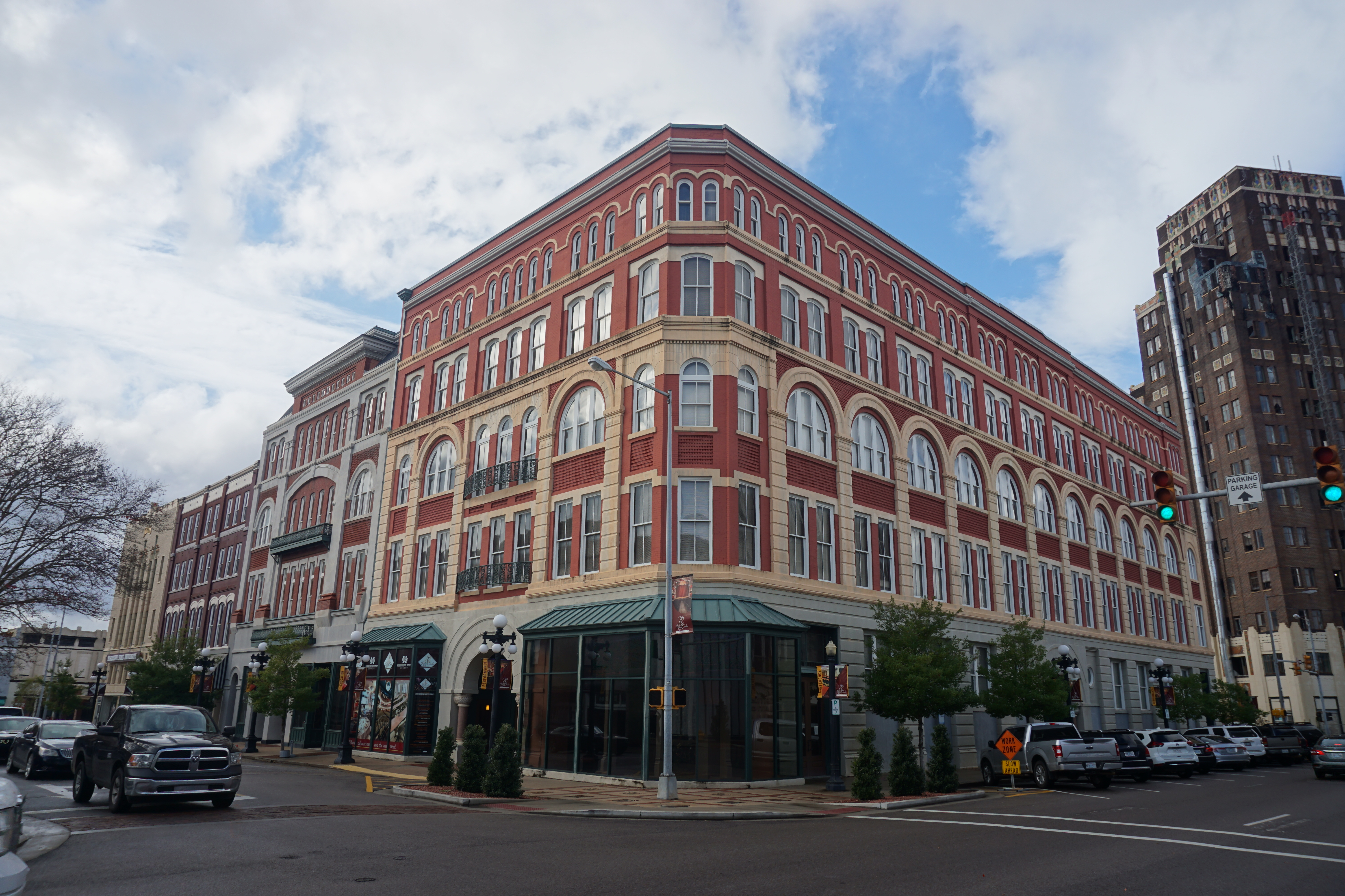 The Mississippi State University - Meridian Riley Center in Meridian, Mississippi (United States).